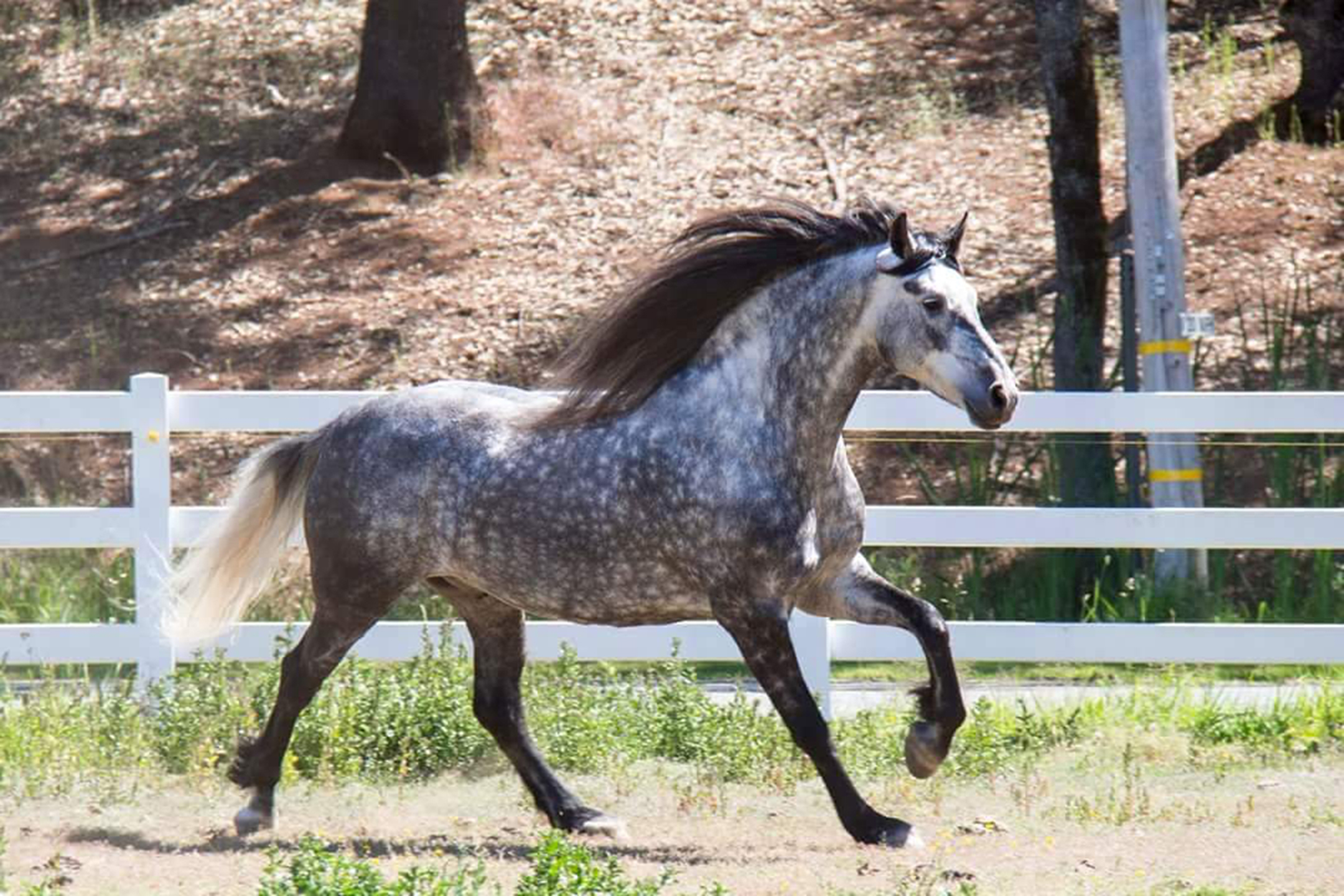 Warlander Horse (Registered in the Global Warlander horse Studbook) Spyder, aka The Spanish Knight